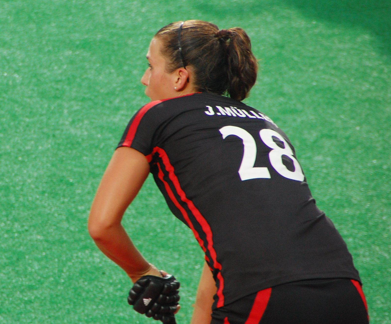 Julia Müller, German field hockey player in the Beijing Olympics semi-final